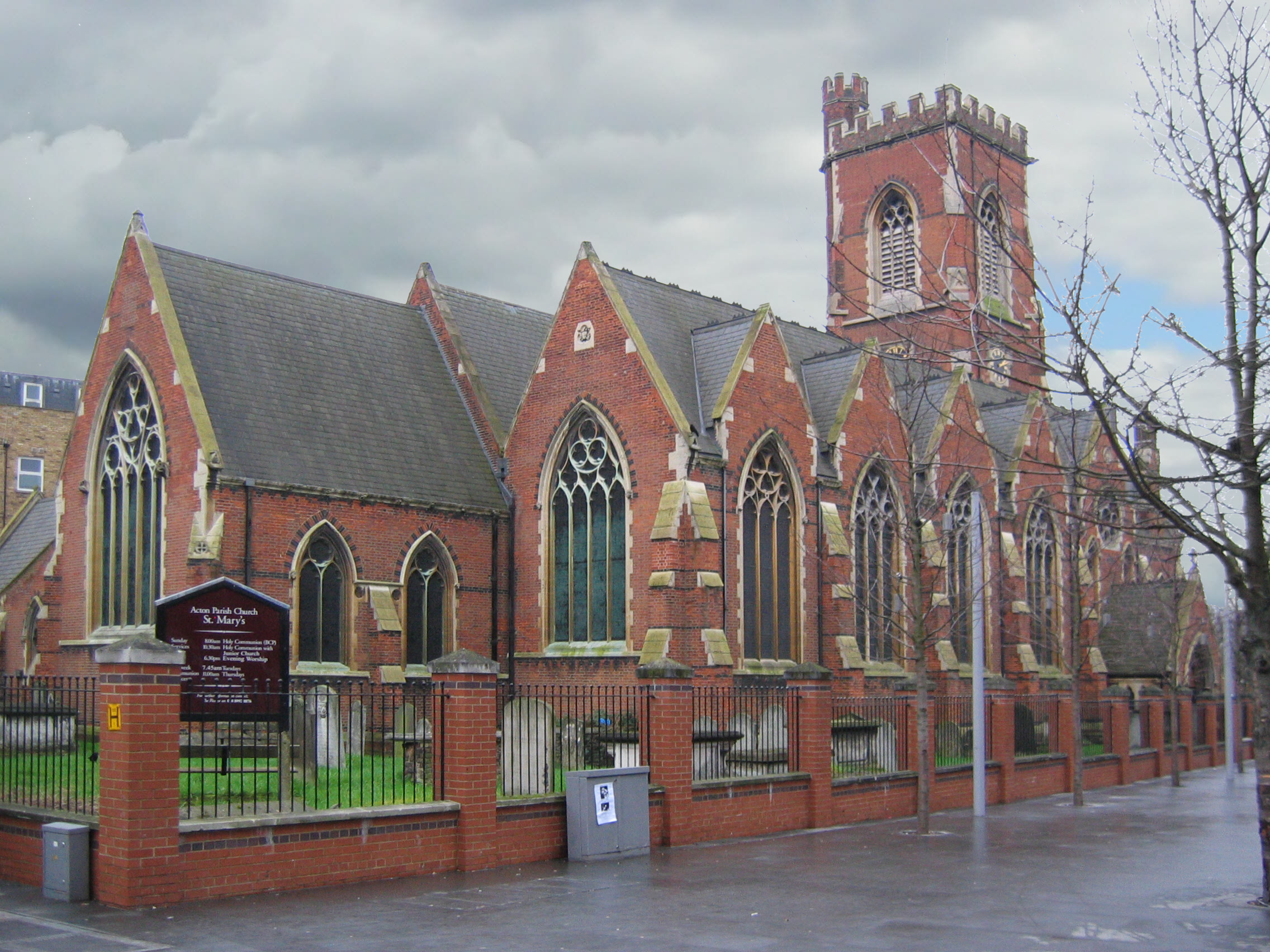 St Mary's parish church, Acton, London W3, seen from the northeast